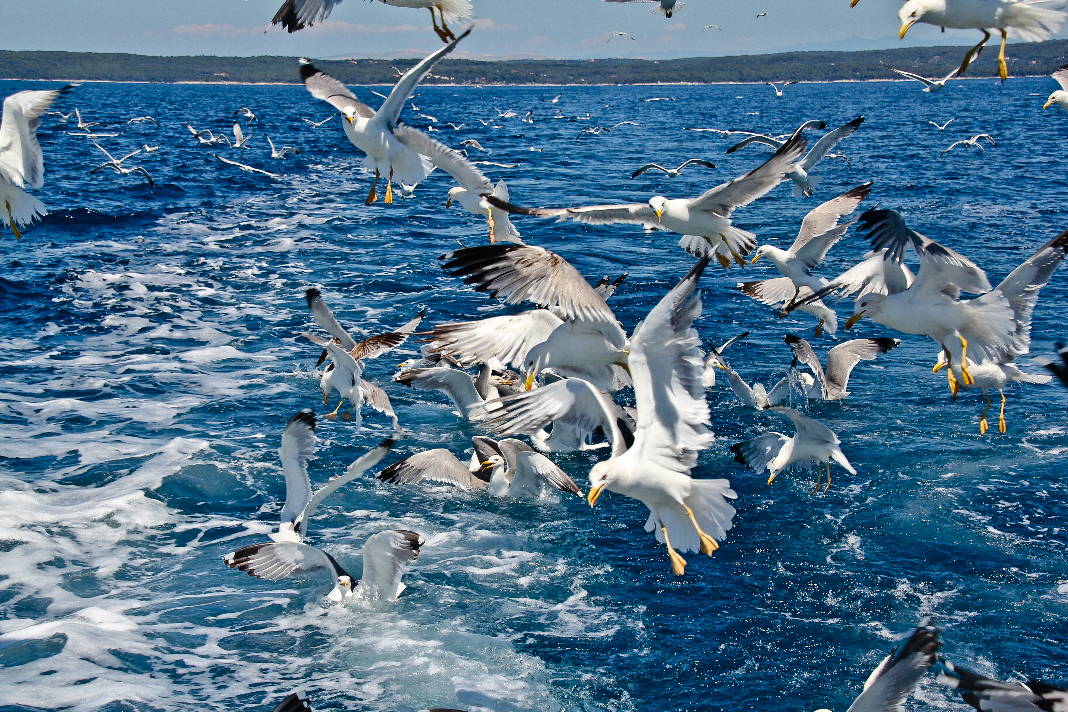 Flock of Yellow-legged gulls in the island of Pag, Croatia